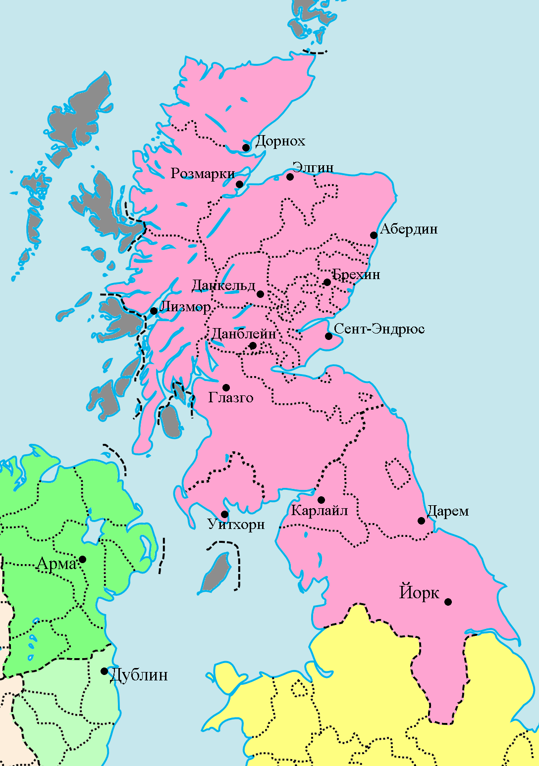 Ecclesiastical province of York in the end of the 12th century